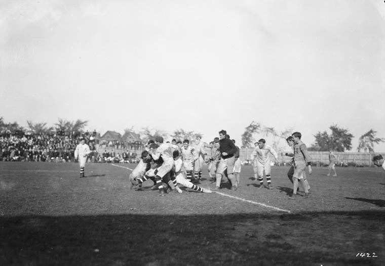 Ottawa and Hamilton Tigers "rugby football" (as described on image) game.